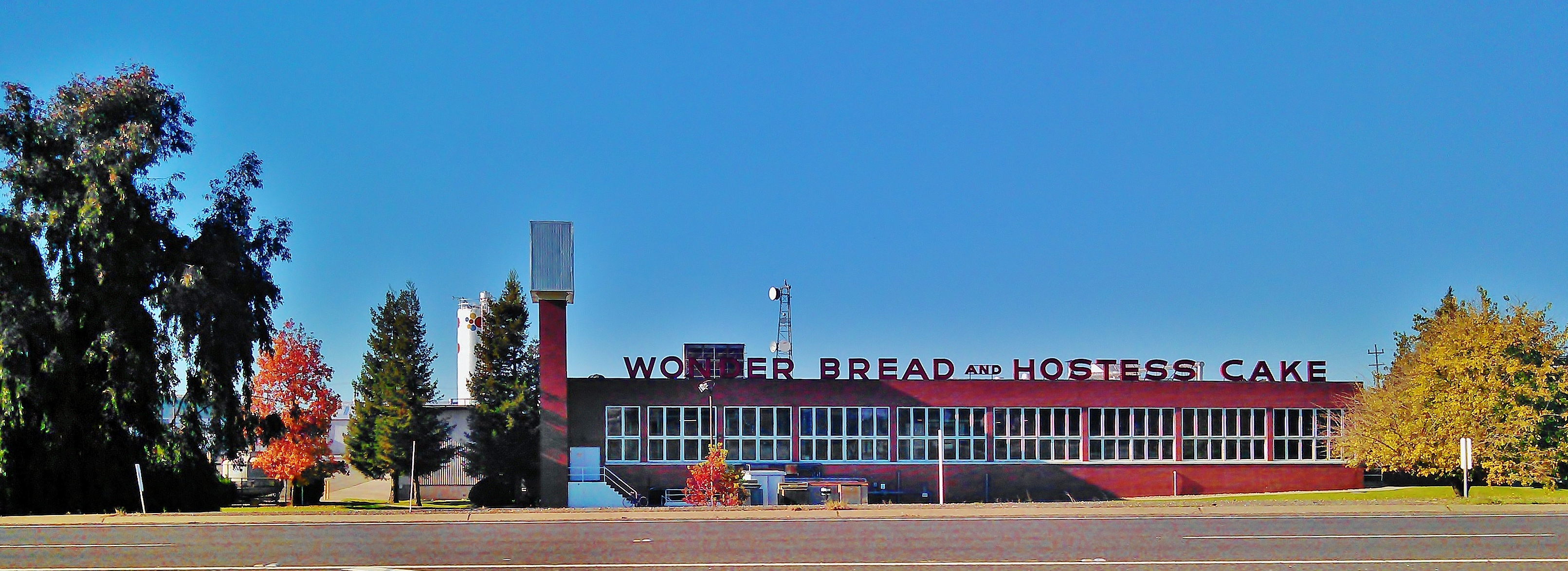 Wonder Bread/Hostess bakery at 1324 Arden Way, Sacramento California